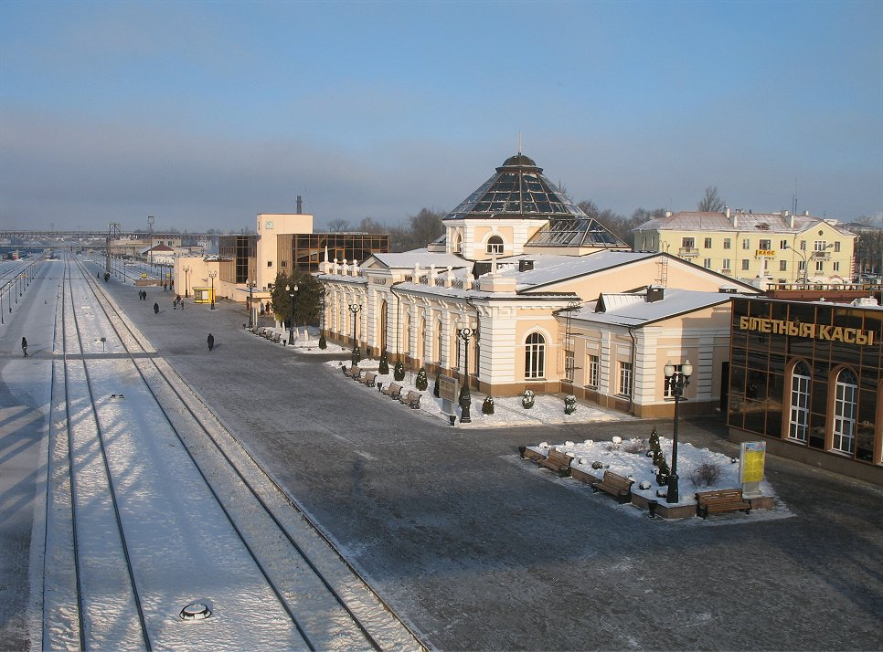 Railway station of Mogiljov (Mahilyow) city in the eastern Belarus.